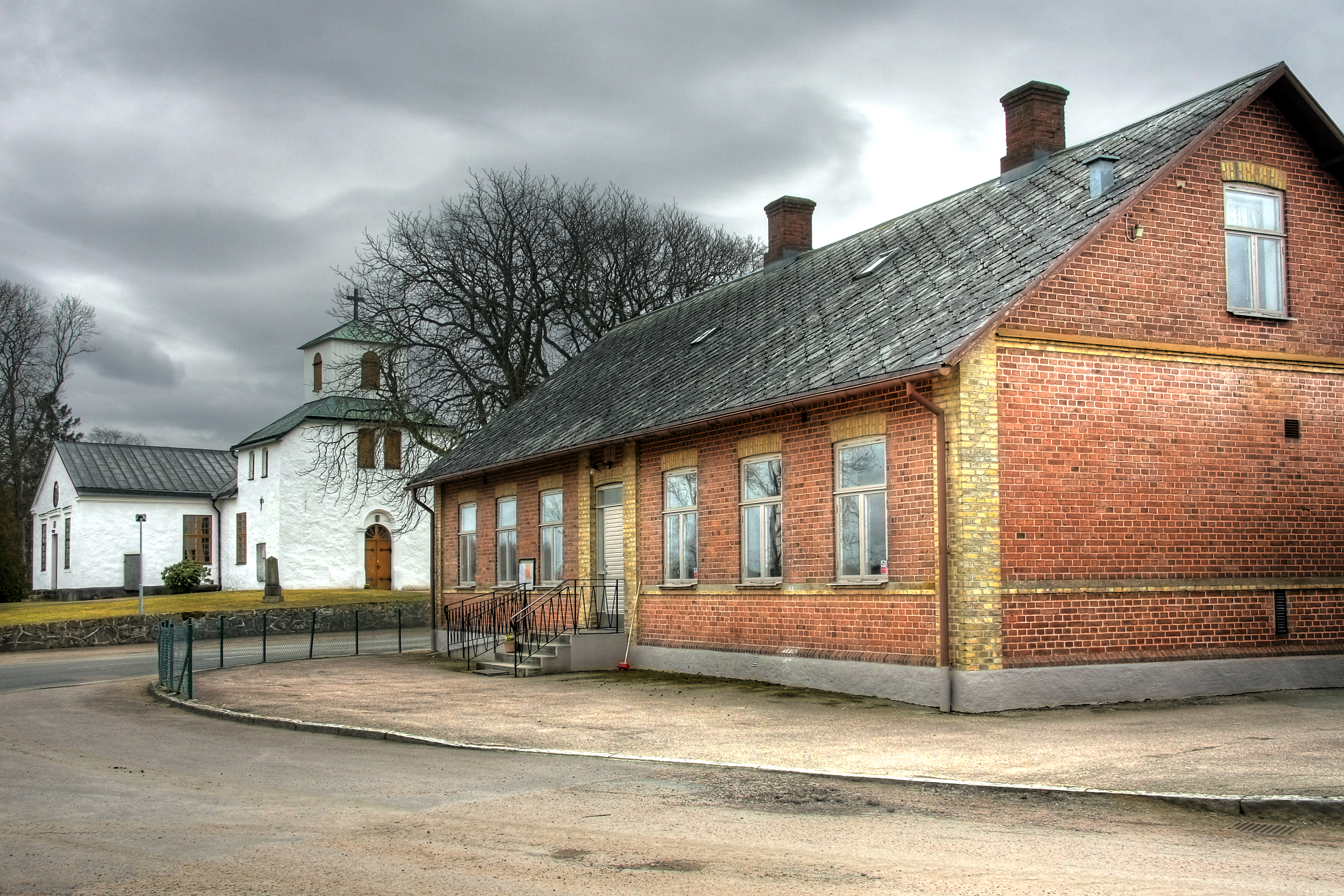 Vankiva church and church hall in Hässleholm municipality, Sweden.